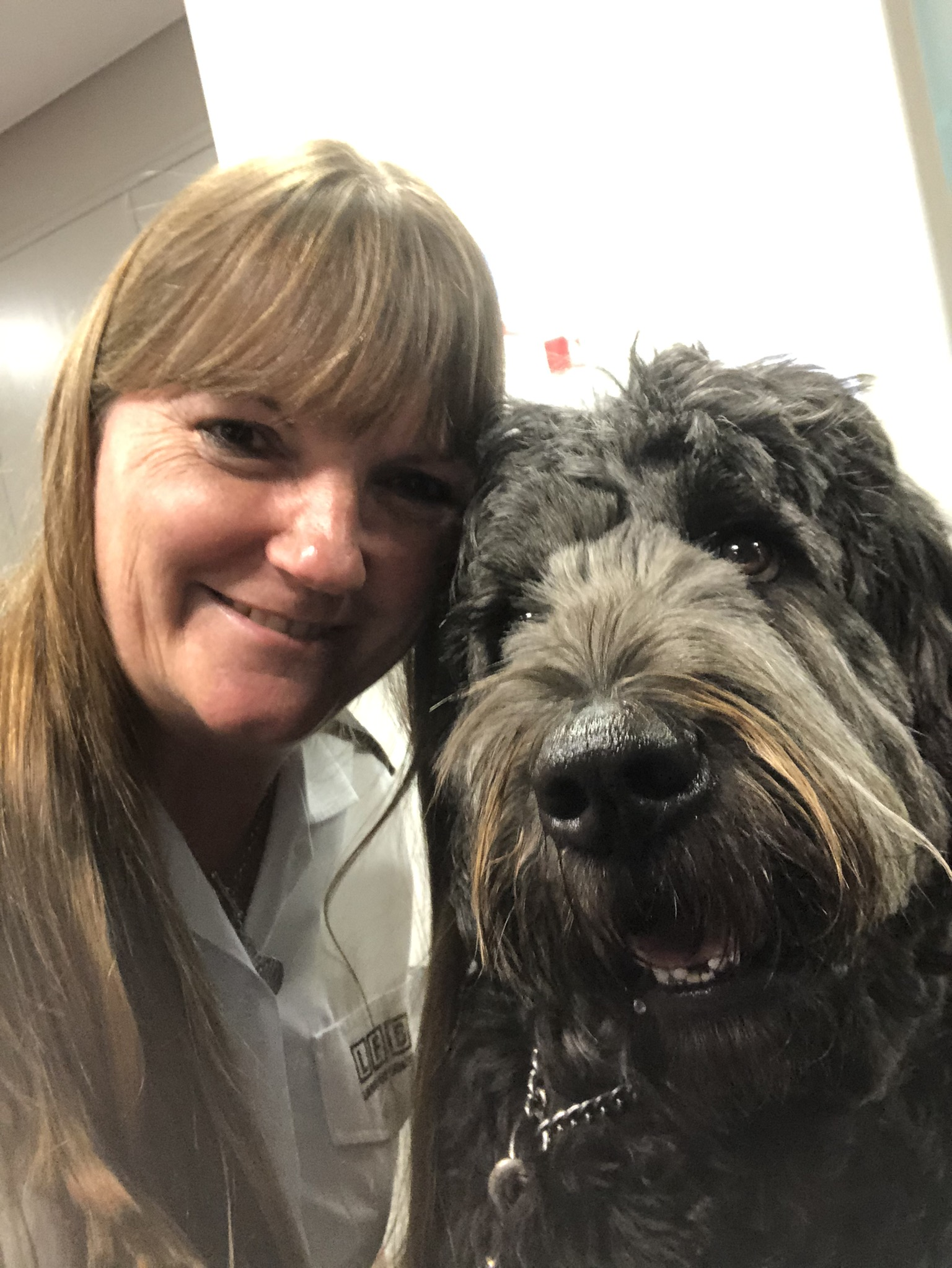 Dany Cotton, retired Commissioner of the London Fire Brigade and Patron of Women in the Fire Service UK